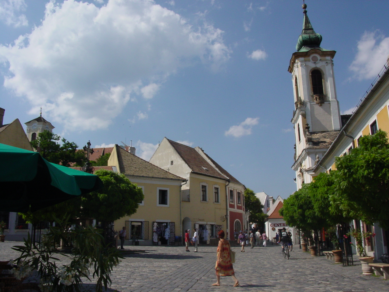 Szentendre, Main Square